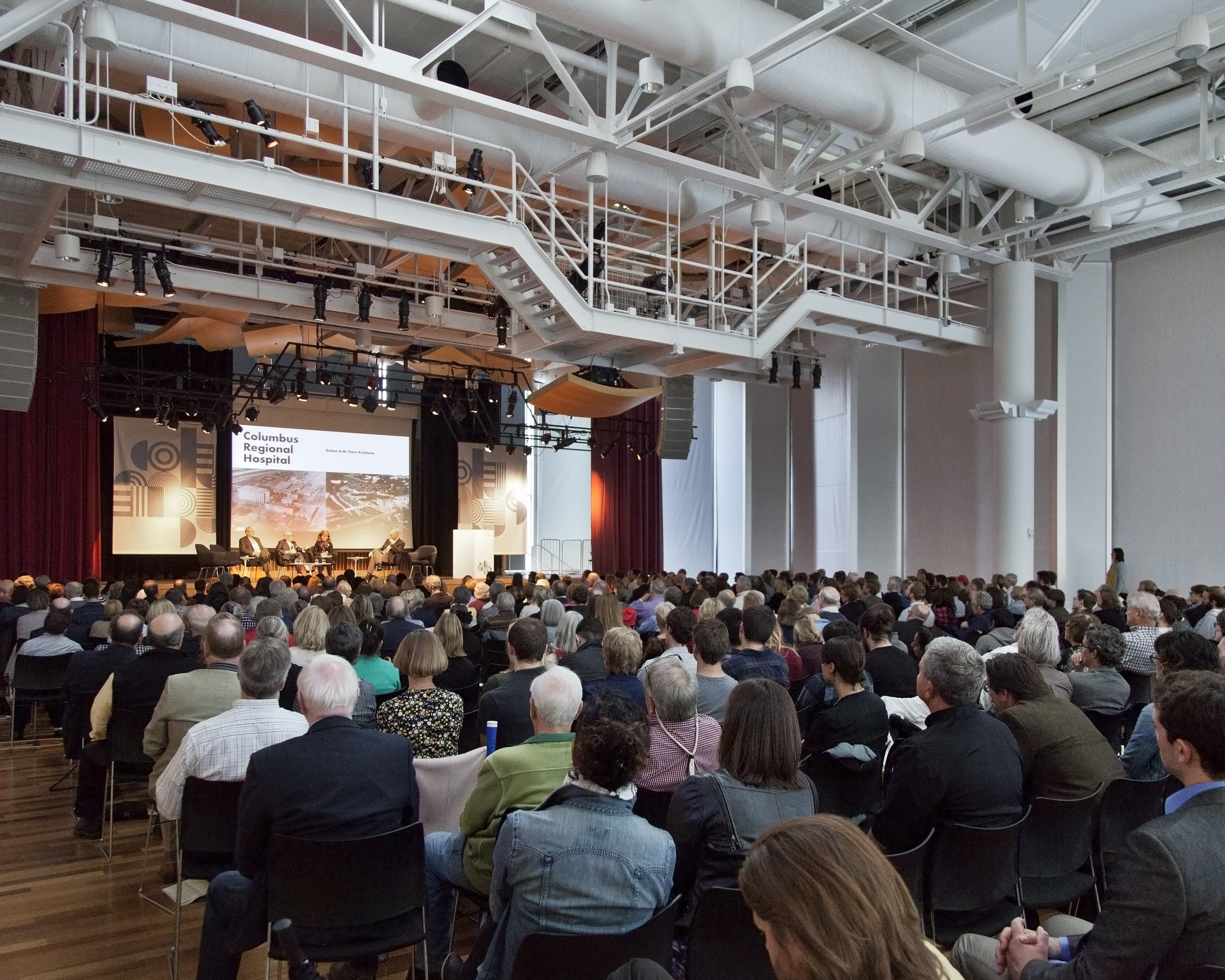 From the symposium, Foundations and Futures, Keynote Session. Friday September 30, 2016. Featuring Deborah Berke, Will Miller, and Robert Stern